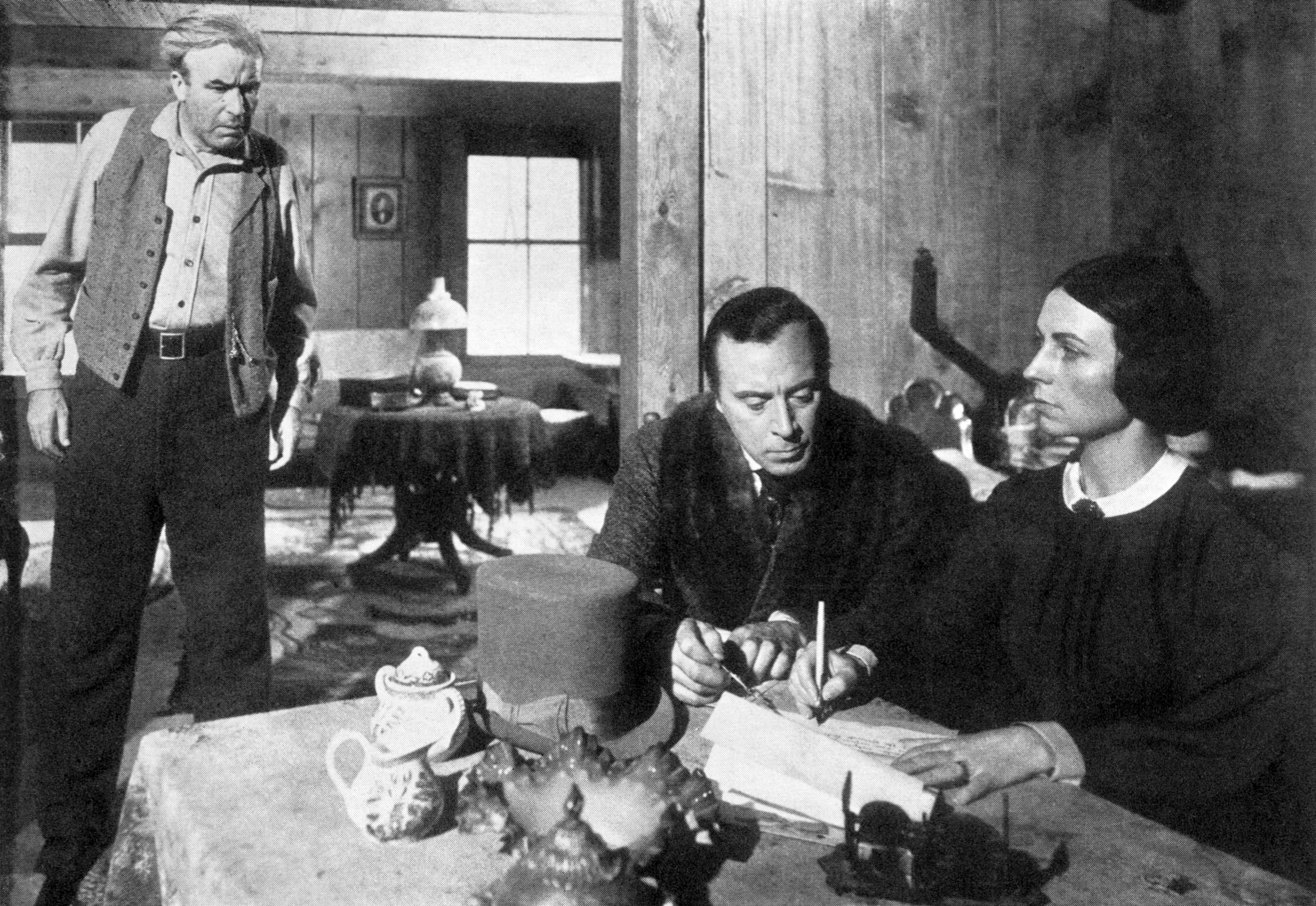 Promotional photograph for the 1941 film Citizen Kane From left: Harry Shannon, George Coulouris, Agnes Moorehead